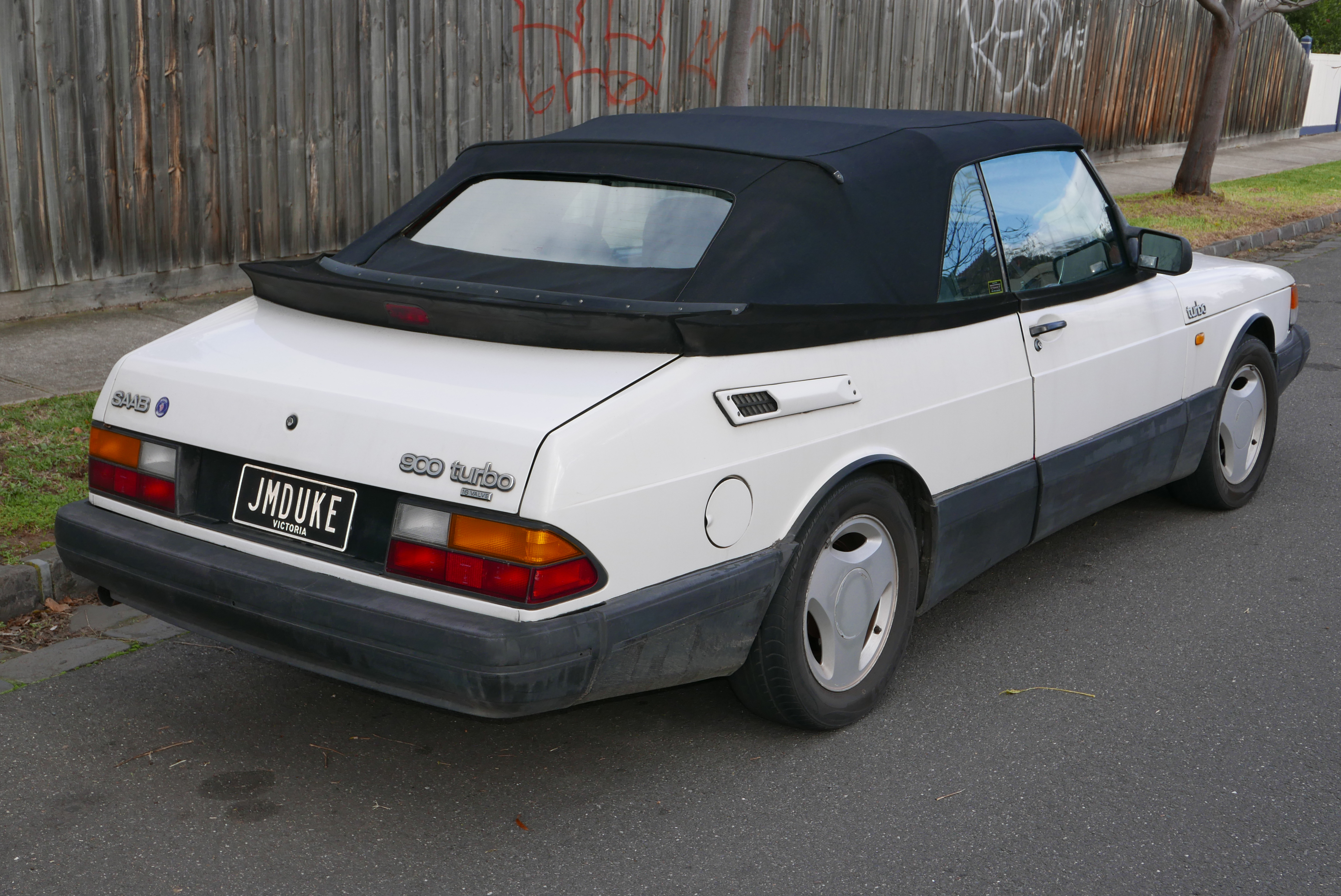 1989 Saab 900 Turbo convertible. Photographed in Northcote, Victoria, Australia. Vehicle registration enquiry results Jurisdiction Victoria Registration JMDUKE Chassis code YS3AD76L9K7029437 Engine code B2022L12AJ071086 Compliance date 1989-08 Year of manufacture 1989